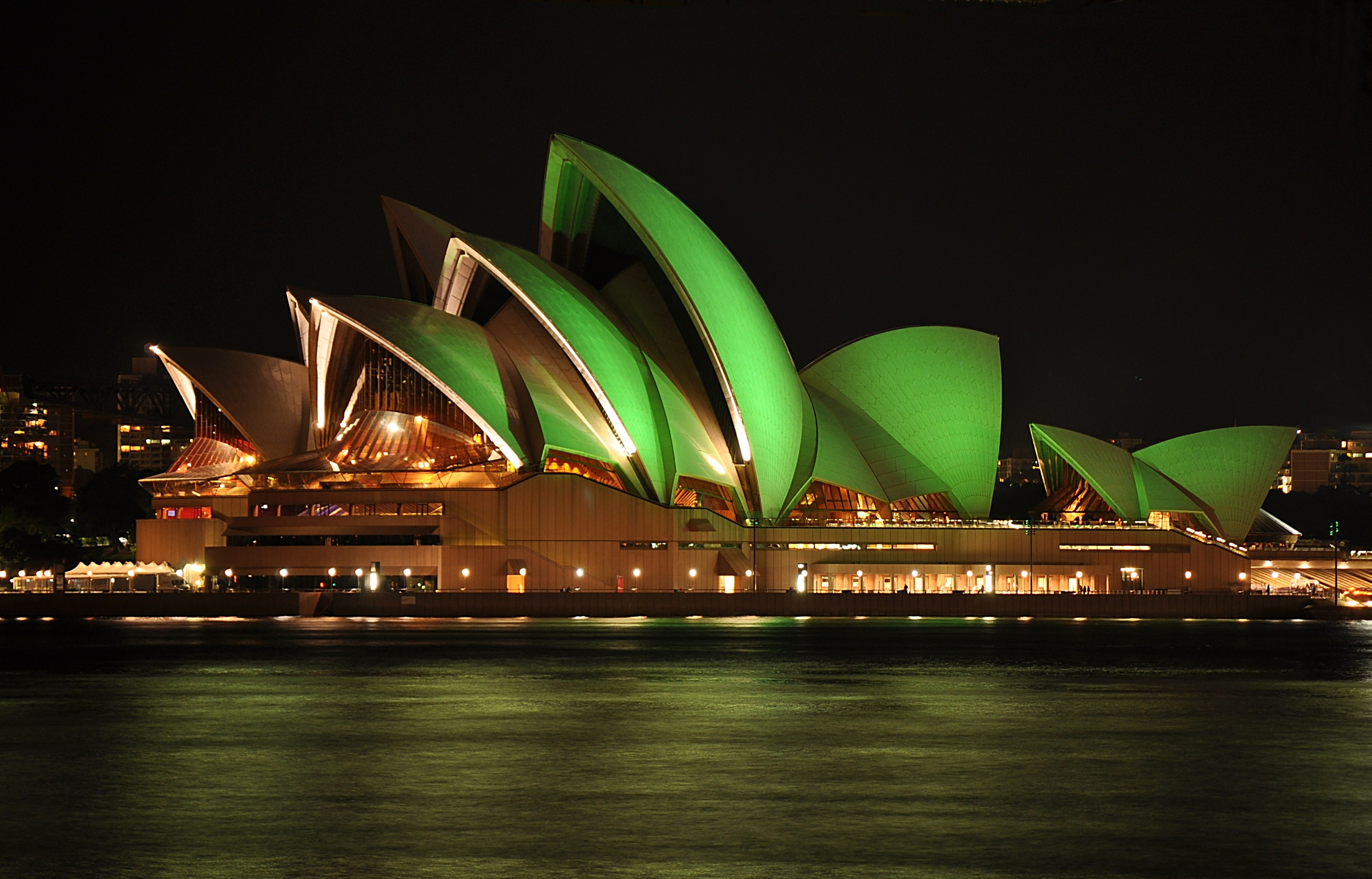 Sydney Opera House lit up for St Patrick's Day 2010